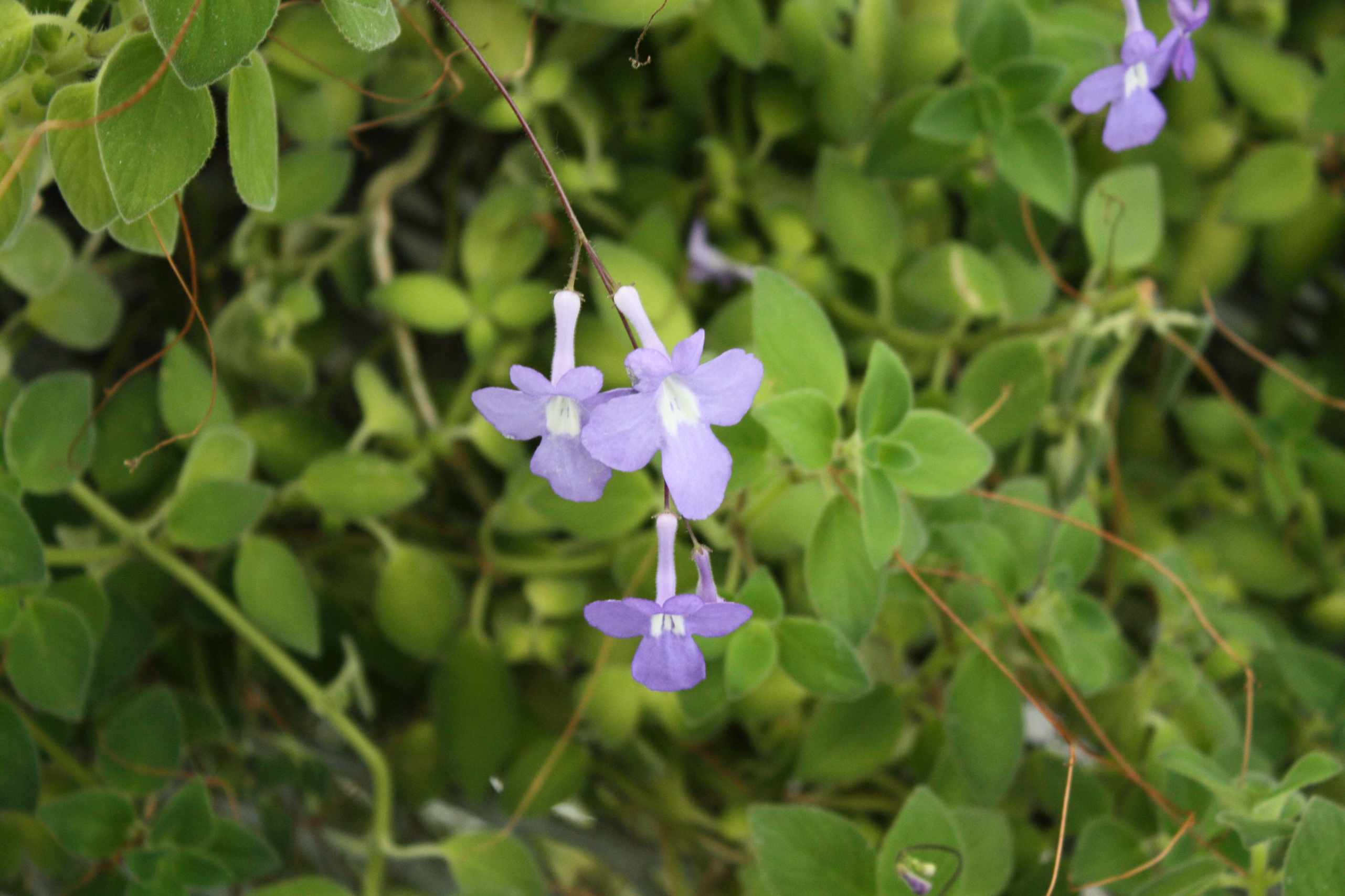 False African-violet (Streptocarpus saxorum) in the glass-house of Botanical garden of Tartu University, Estonia